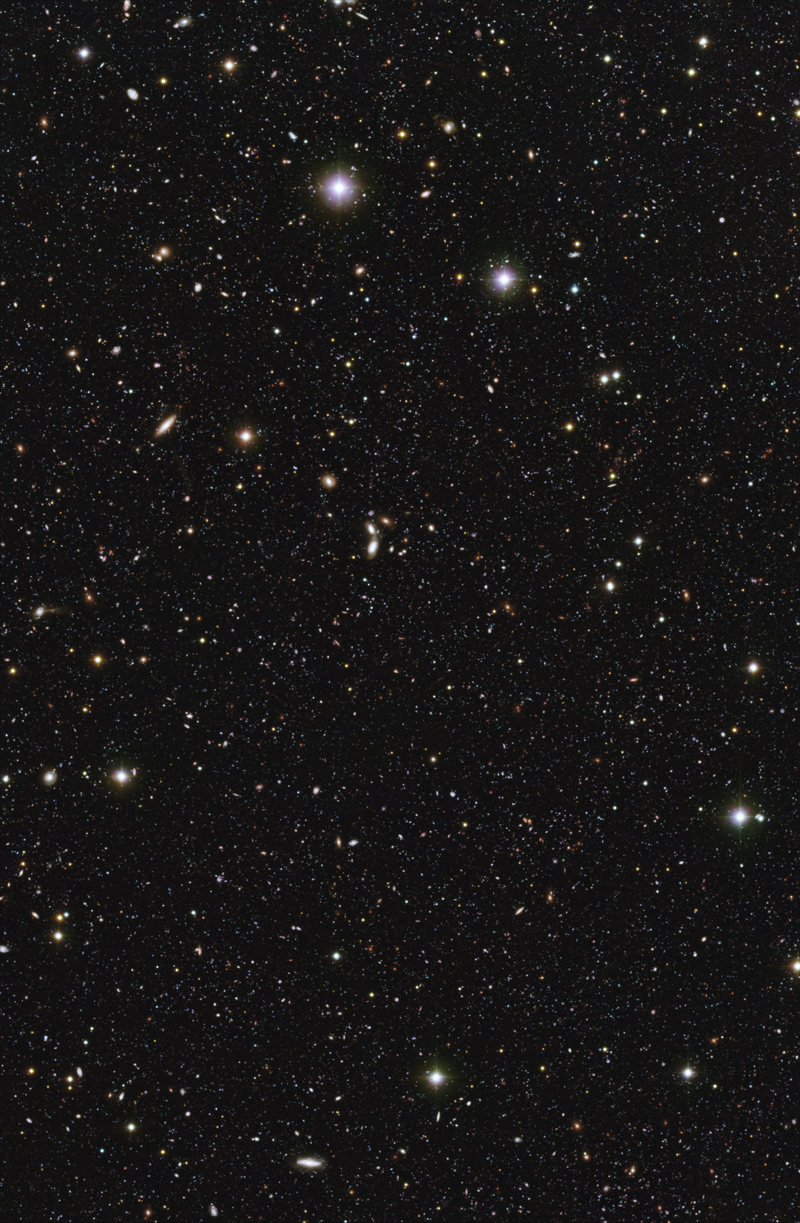 The Chandra Deep Field South, observed in the U-, B-, and R-bands with ESO's VIMOS and WFI instruments. The U-band VIMOS observations were made over a period of 40 hours and constitute the deepest image ever taken from the ground in the U-band. The image covers a region of 14.1 x 21.6 arcmin on the sky and shows galaxies that are 1 billion times fainter than can be seen by the unaided eye. The VIMOS R-band image was assembled by the ESO/GOODS team from archival data, while the WFI B-band image was produced by the GABODS team.